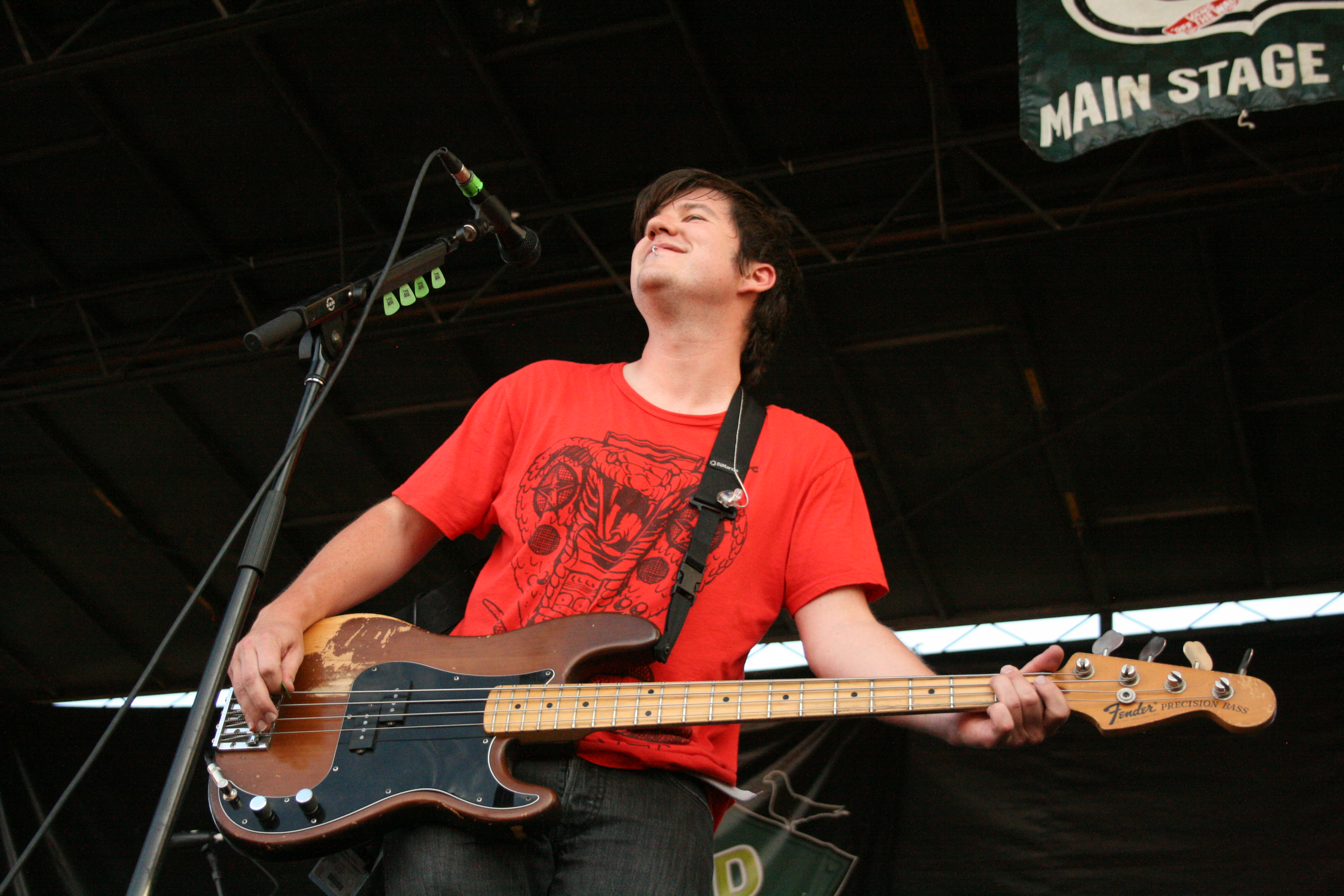 Matthew Taylor, bassist for Motion City Soundtrack, performing in August 2008.